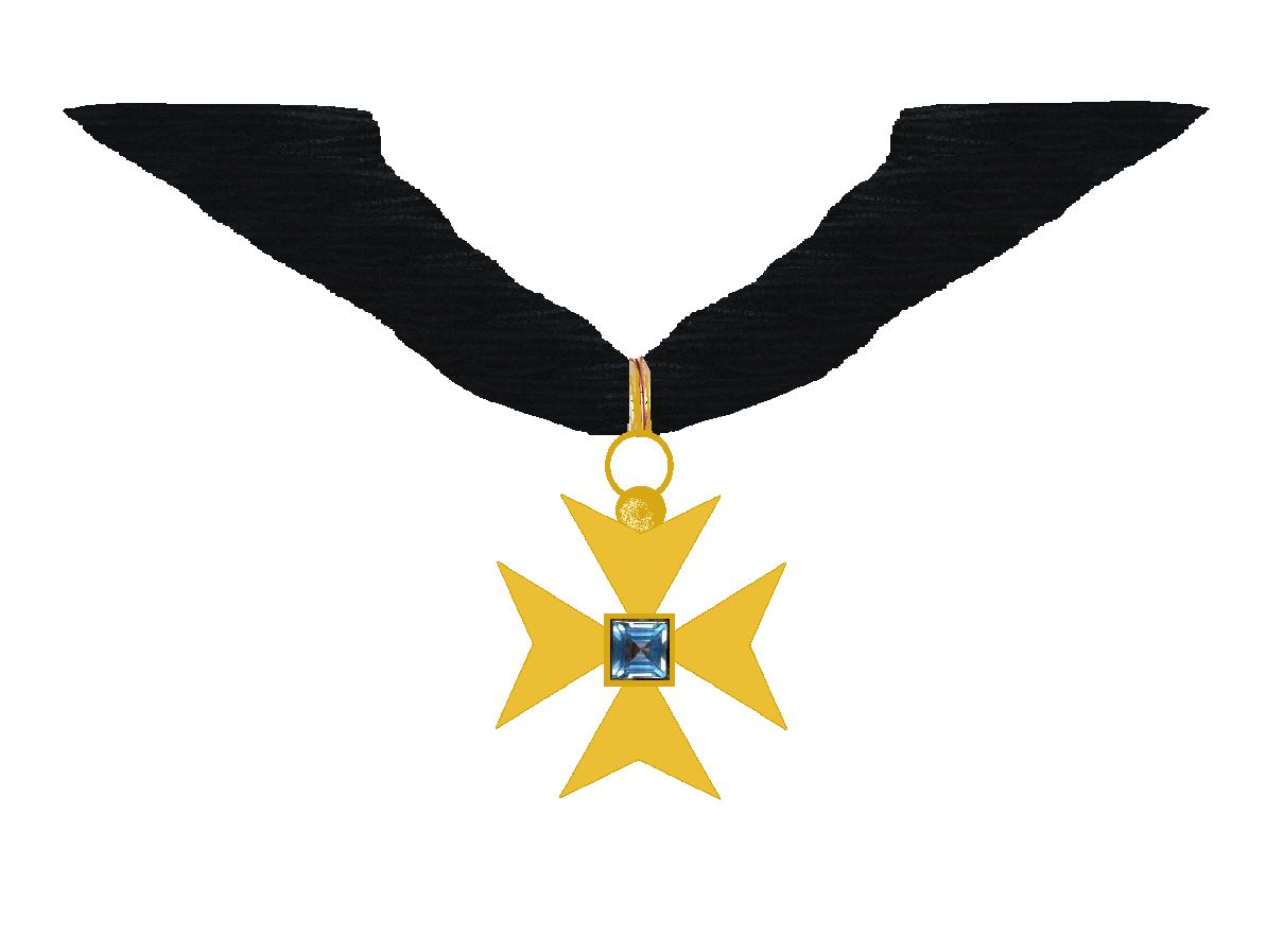 Order of Generosity Prusia